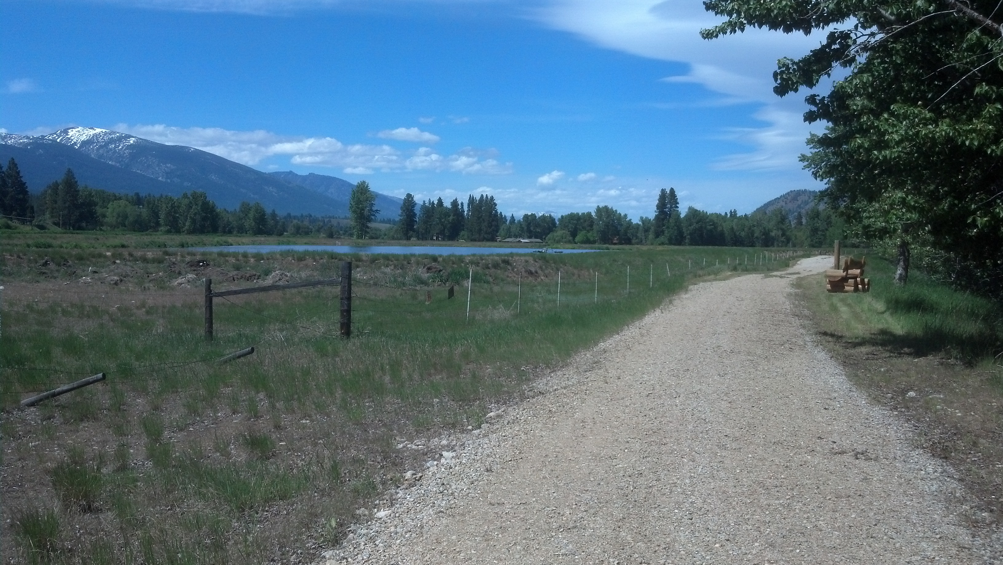 Discovery nature trail (East side towards river)